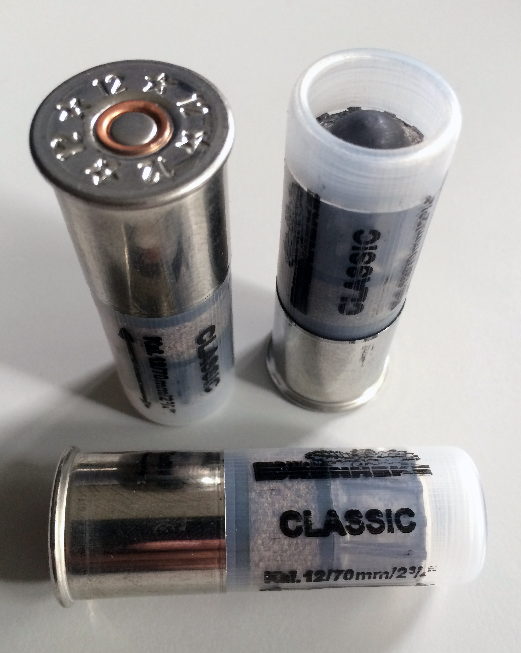 Brenneke Slugs 12/70